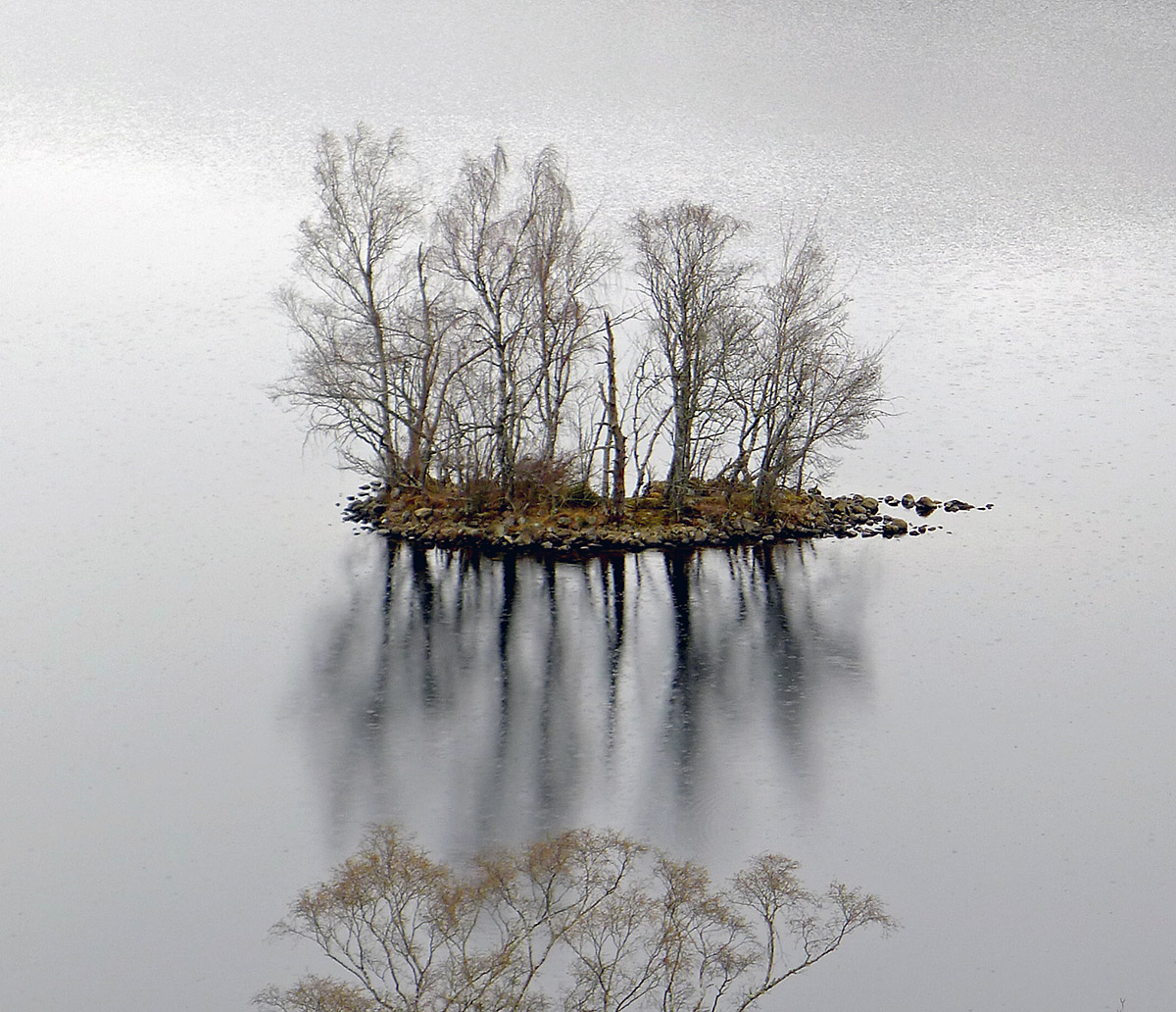 The Crannog on Loch Achilty